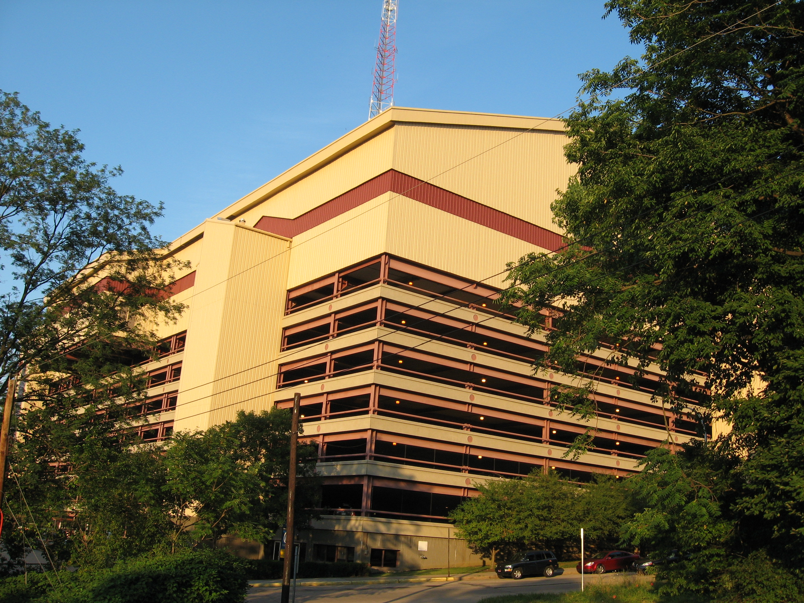 The Cost Sports Center at the University of Pittsburgh 40°26′46.3″N 79°57′53.3″W / 40.446194°N 79.964806°W